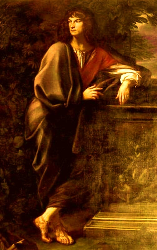 The second Earl, Robert Spencer.